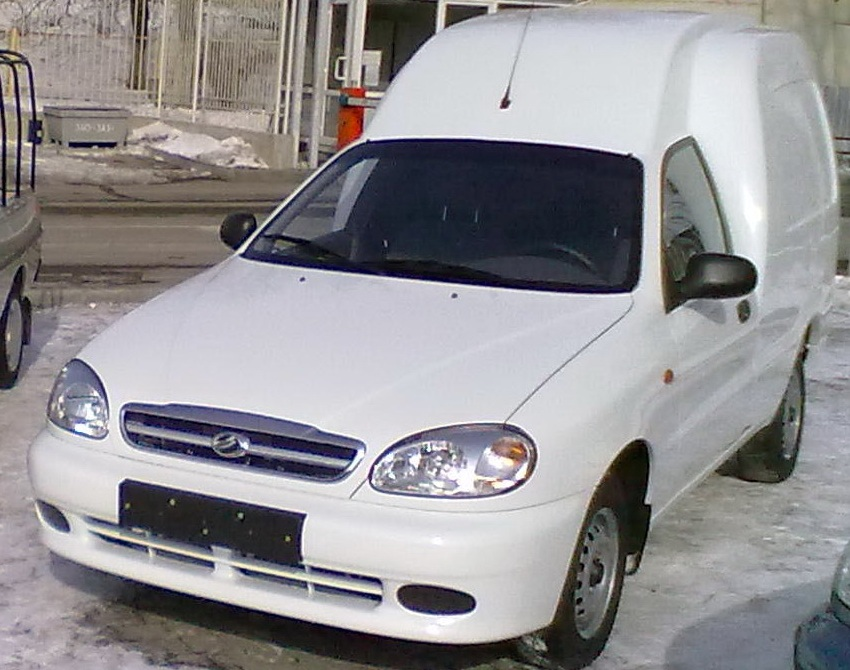 ZAZ-11055840 Tavria Pick-Up & ZAZ Lanos Pick-up